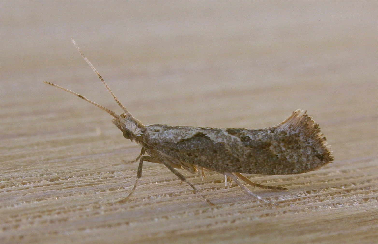 Leuroperna sera (Meyrick, 1885), to MV light, Aranda, ACT, 27 September 2008